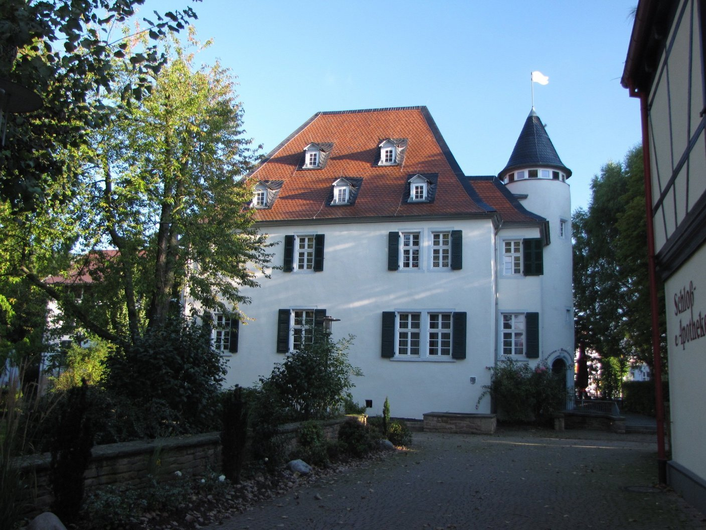 Schloss Rockenhausen